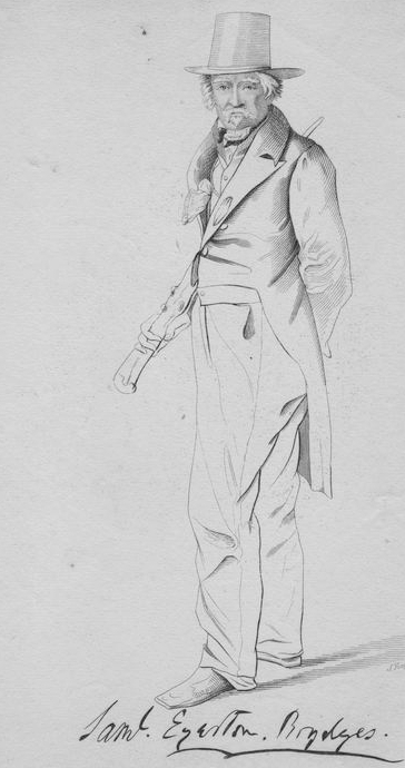 English writer, bibliographer and genealogist Sir Samuel Egerton Brydges, 1st Baronet (1762-1837), "author of Mary de Clifford" ["Mary de Clifford, a story interspersed with many poems", 1792].